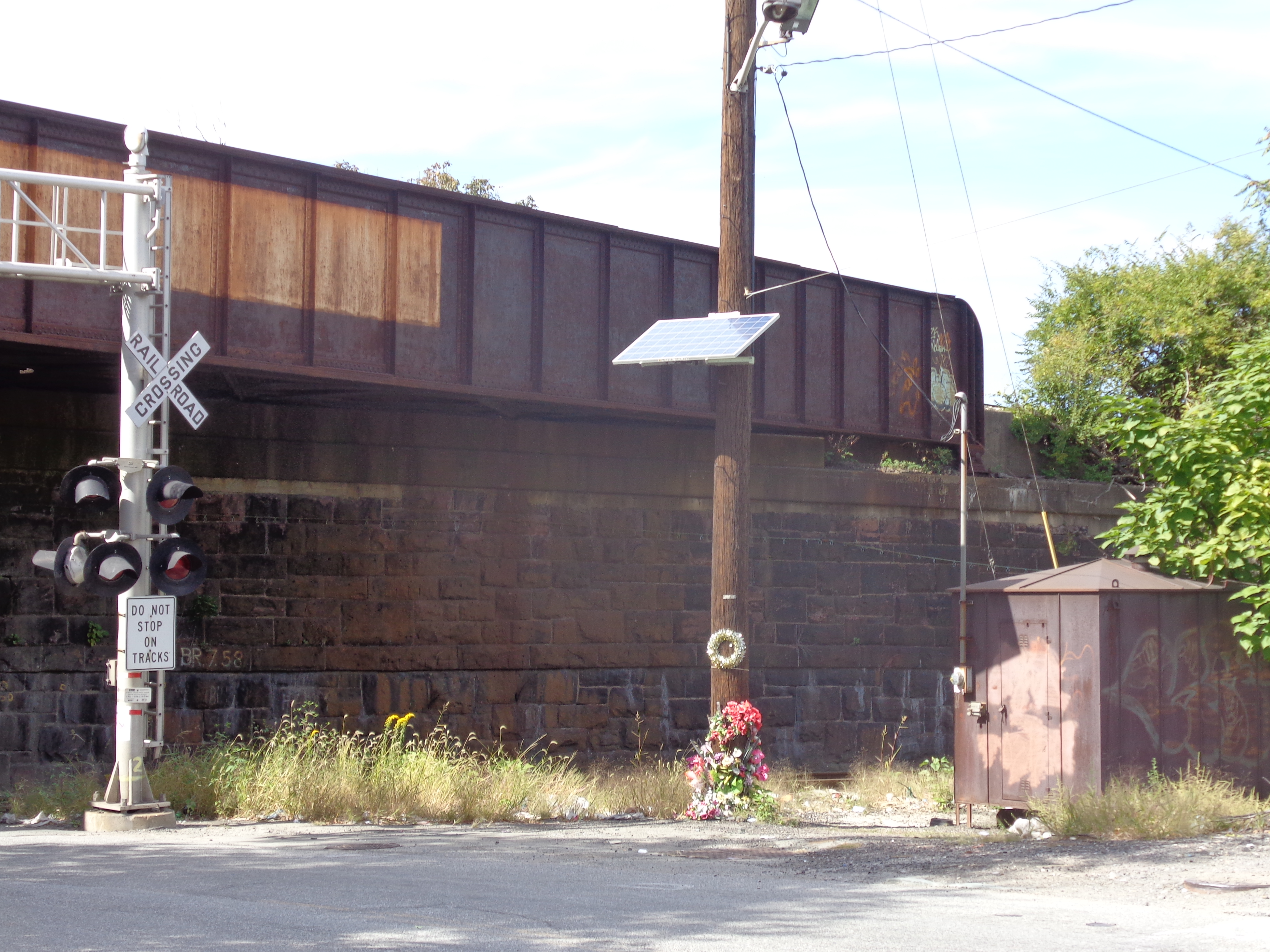 CSX at Babbitt, North Bergen. Former Erie Northern Branch passes under former NYC West Shore north of former Granton Junction near 83rd Street. Hudson-Bergen Light Rail Northern Branch Corridor Project calls for closure of at-grade crossing